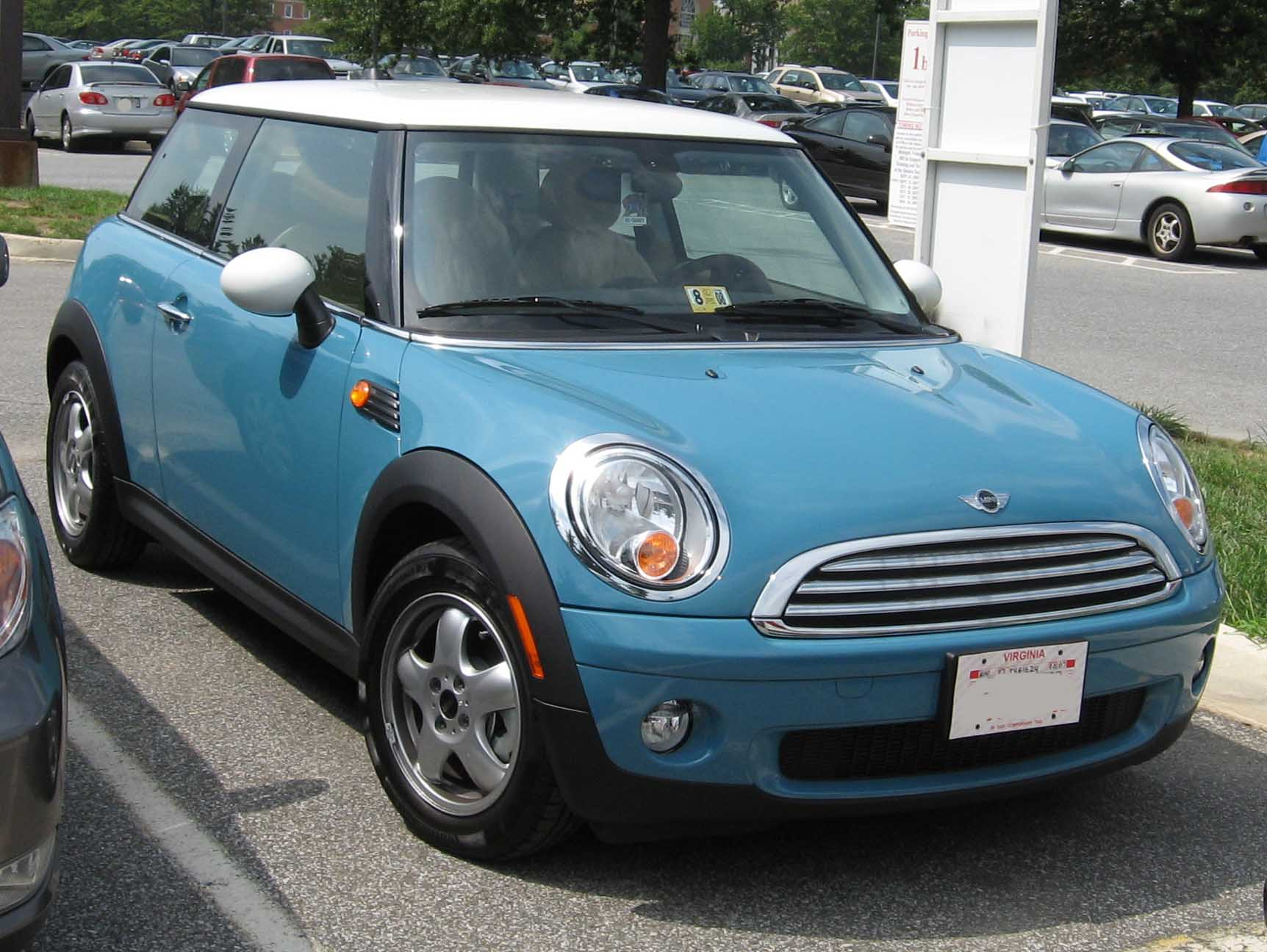 2007 Mini Cooper photographed in USA.